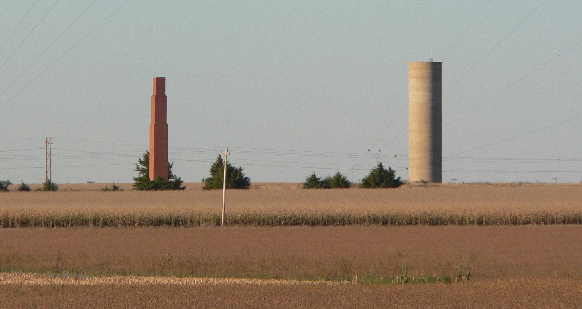 Steam heating plant chimney (left) and water tower (right) at site of Camp Atlanta, northeast of Atlanta, Nebraska.